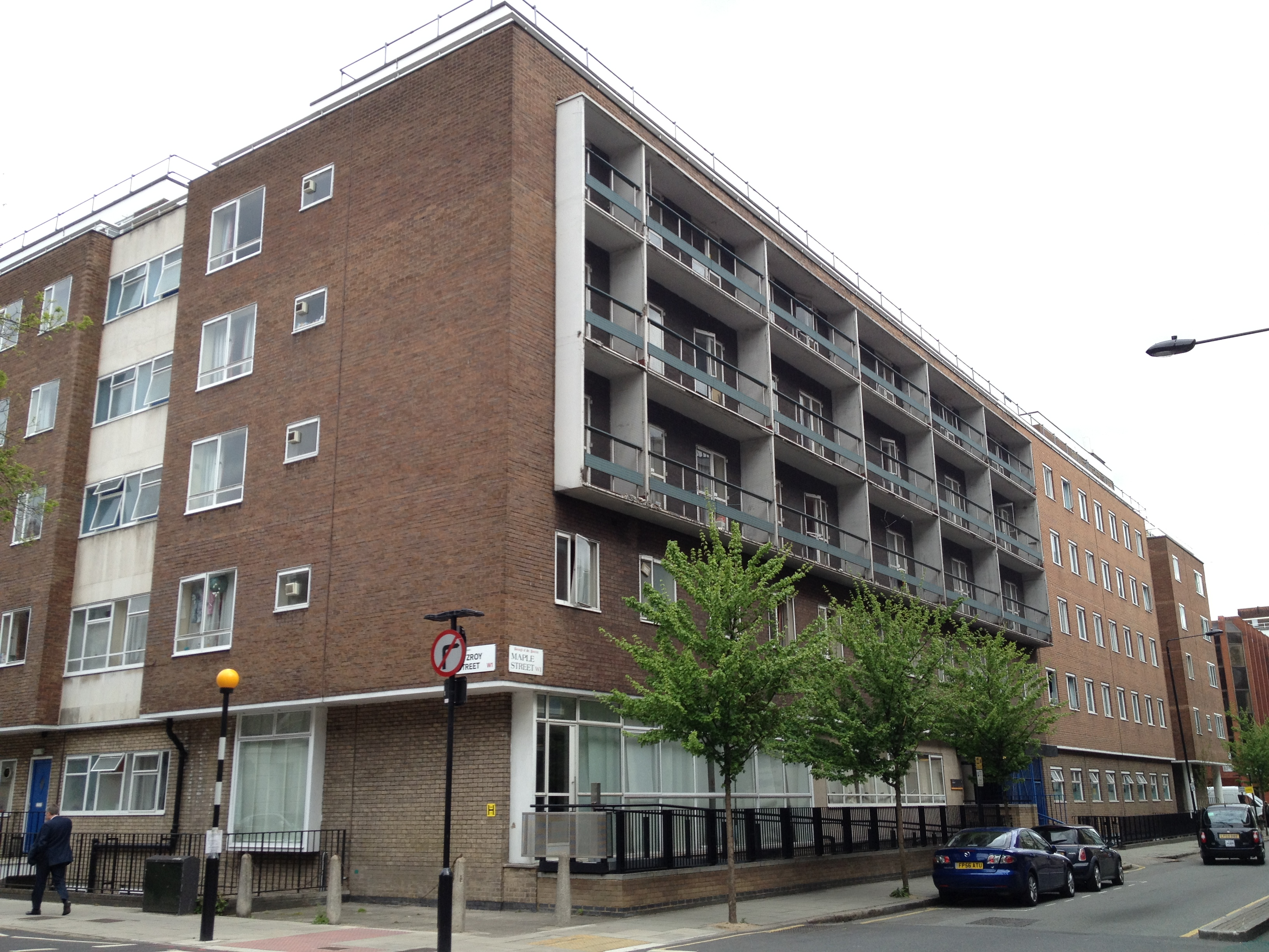 Ramsay Hall, a students hall of residence, University College London, London. (image for Wikimania 2007 bid).